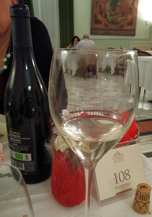 Pignoletto wine, year 2016